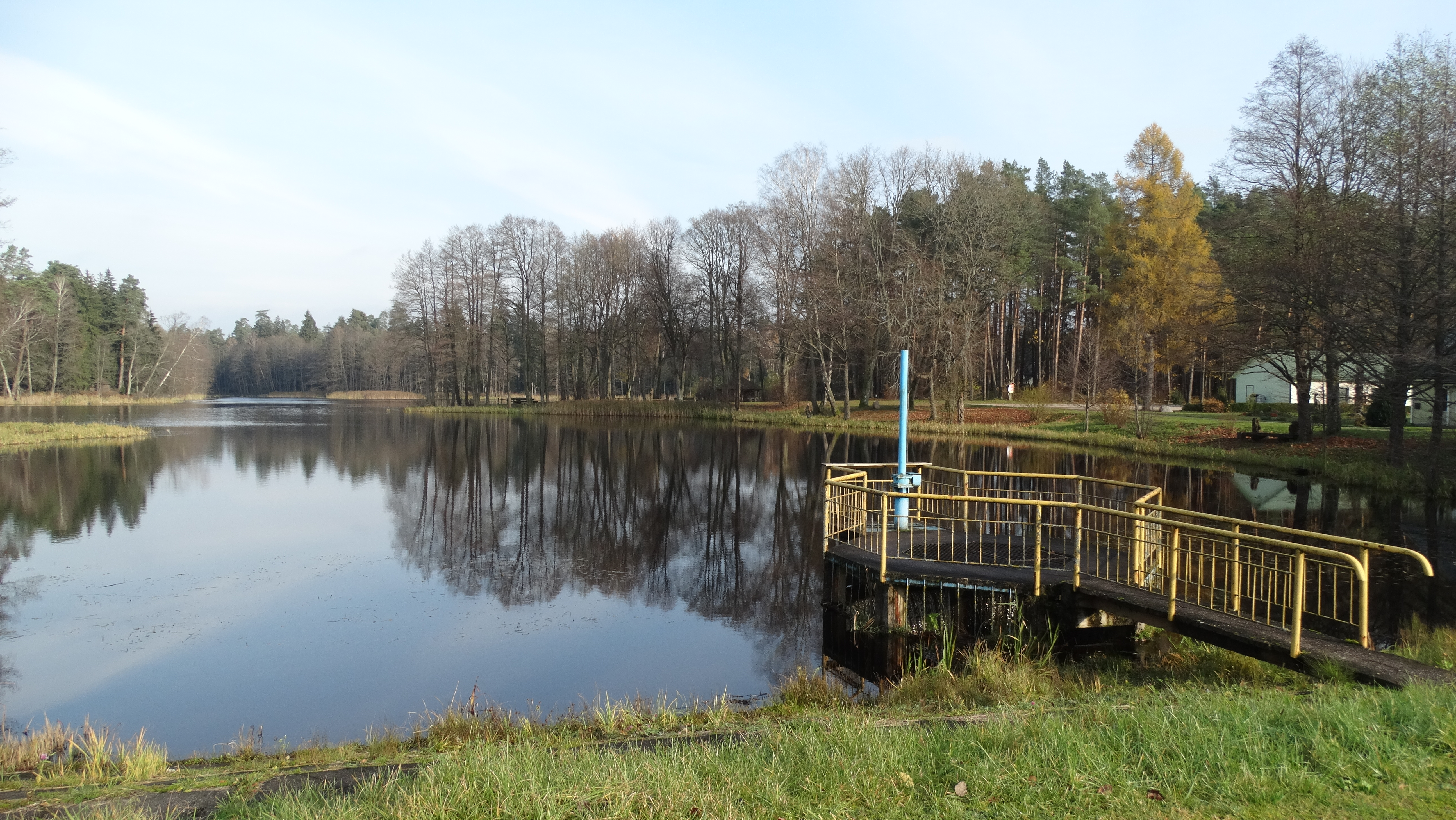 Pond, Pašventys, Jurbarkas District, Lithuania